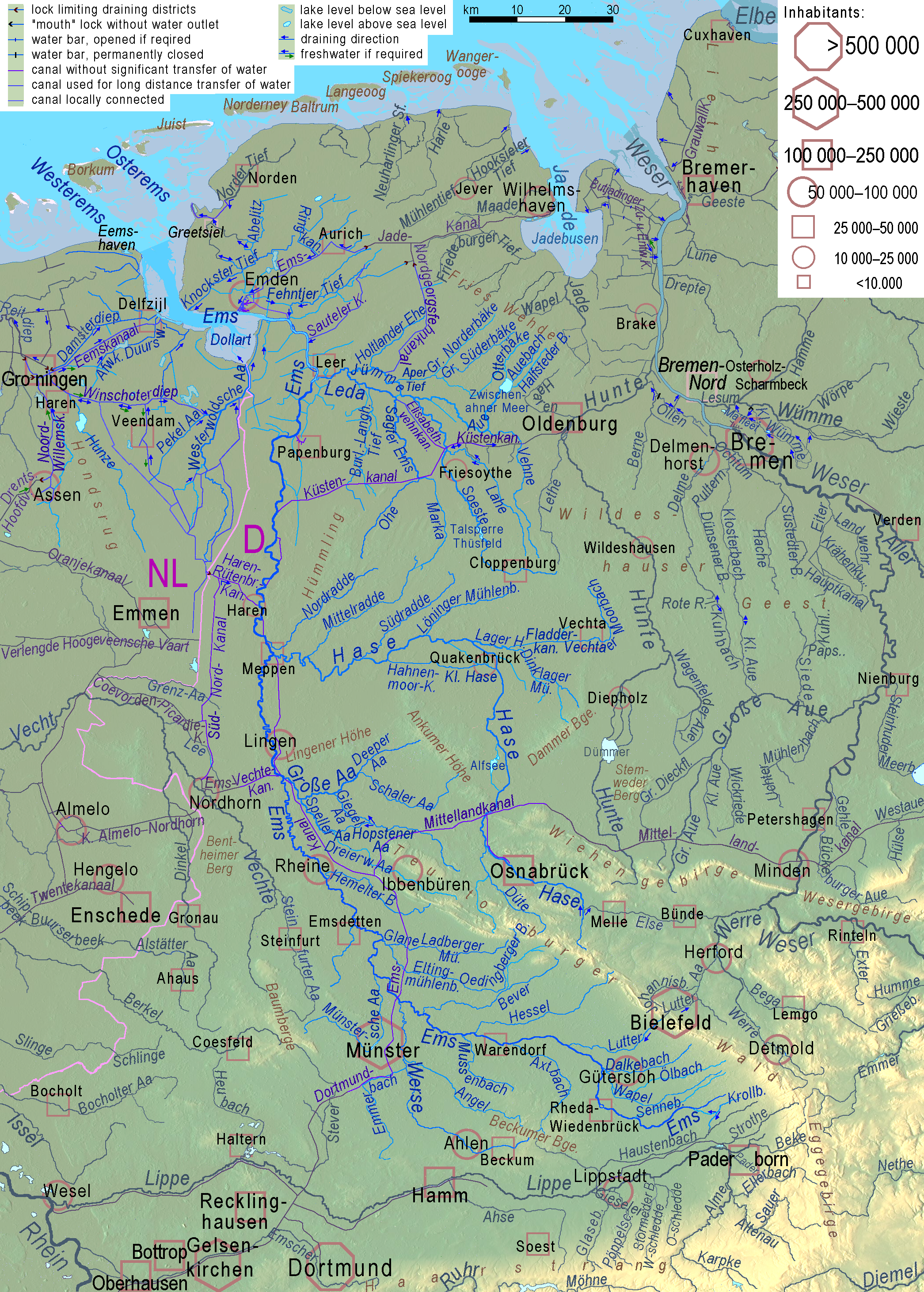 Topographic map of River Ems system, with explanations in English